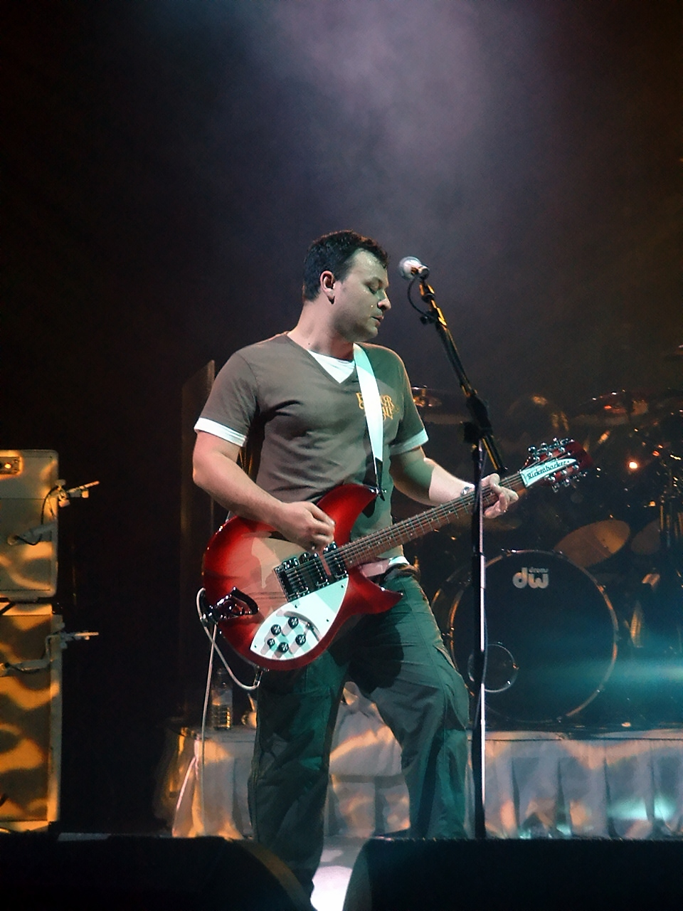 Manic Street Preachers live in London